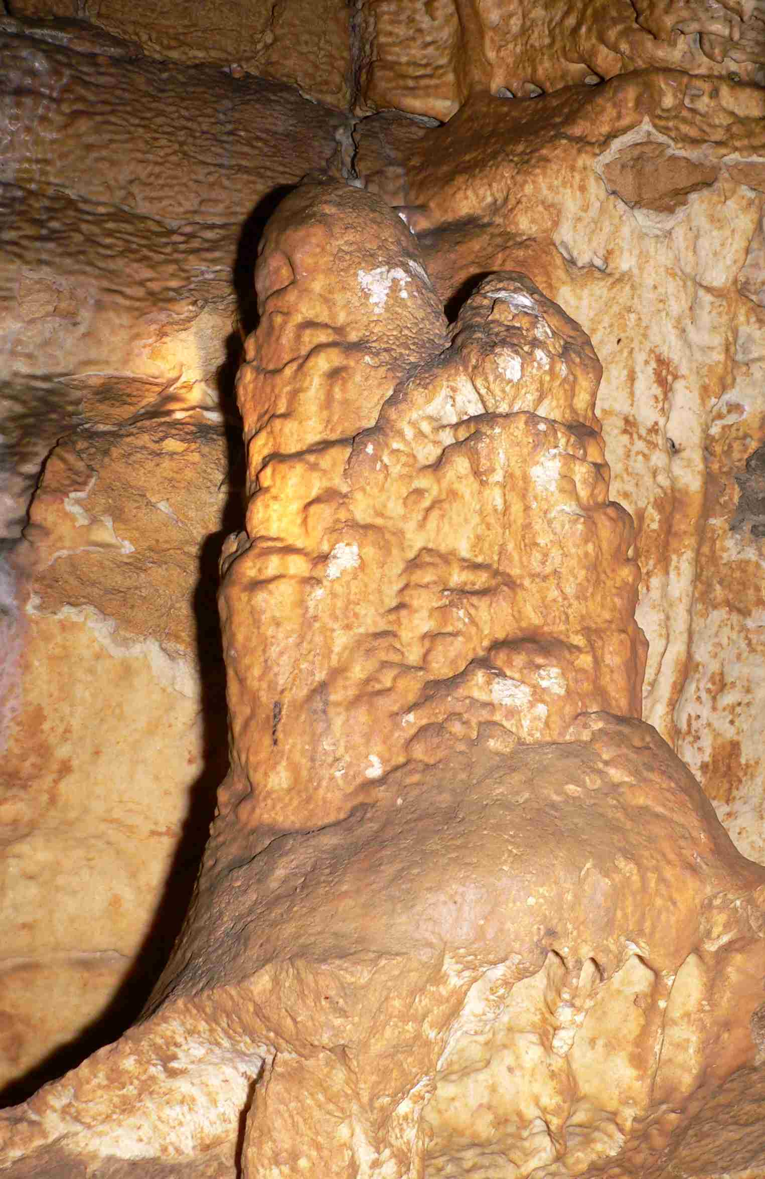 Madonna with child, cave Germany